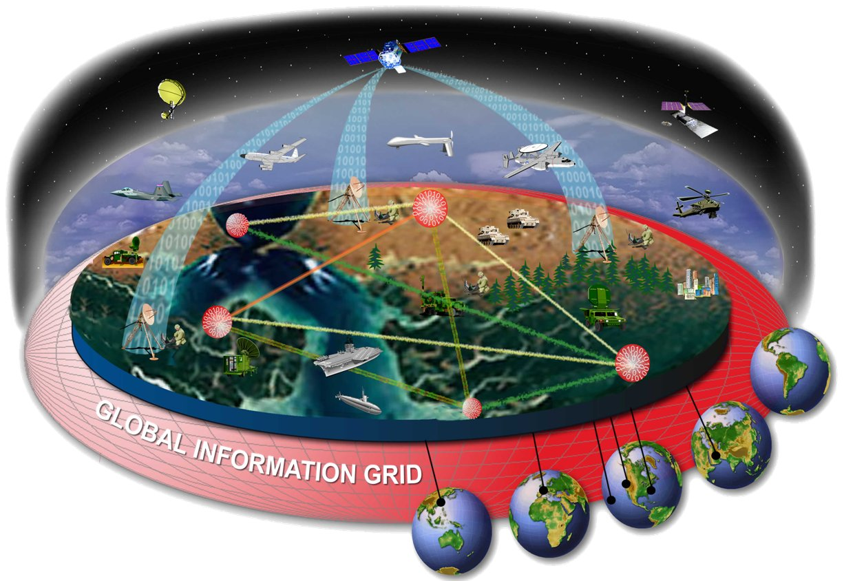 Global Information Grid Operational View-1